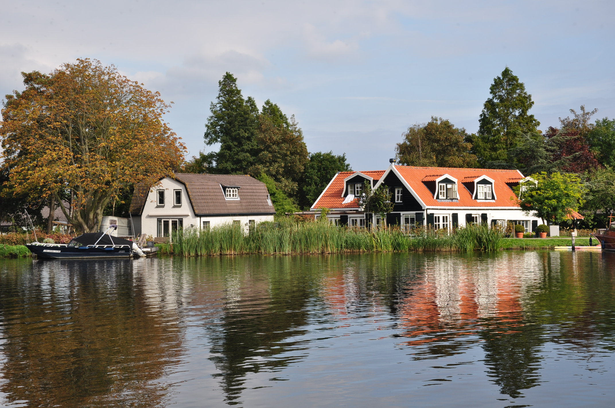 Farms along the Amstel (river), somewhat north of Amstelhoek (a hamlet in the municipality De Ronde Venen, Province Utrecht, Netherlands).